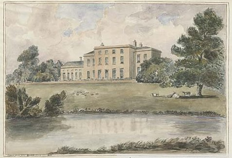 A watercolor view of Milford Hall in Staffordshire, seat of Richard Byrd Levett, Esq., copied from the original by John Buckler, F.S.A. The watercolor shows a three-story house with large central blocks and wings, viewed from across the property's lake.